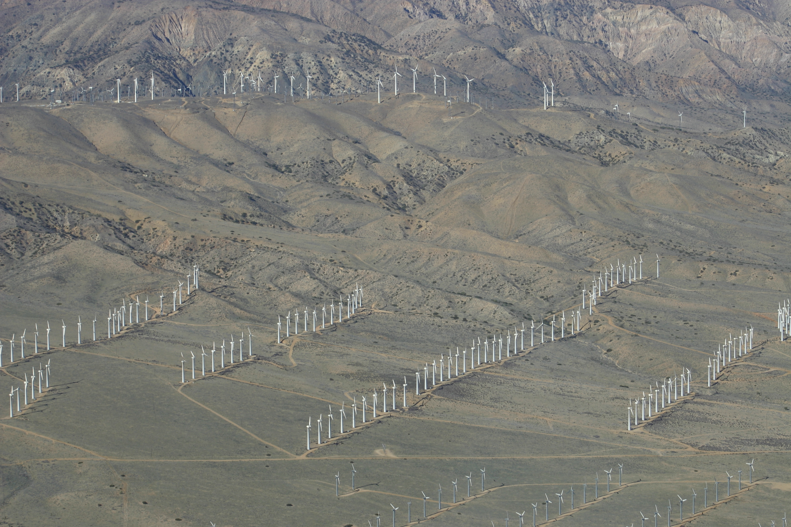 This aerial view of the Tehachapi Pass Wind Farm was taken on Feb 28, 2008 during a flight from the Mojave Air & Space Port to Reid-Hillview Airport